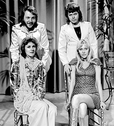 ABBA in AVRO's TopPop (Dutch television show) in 1974